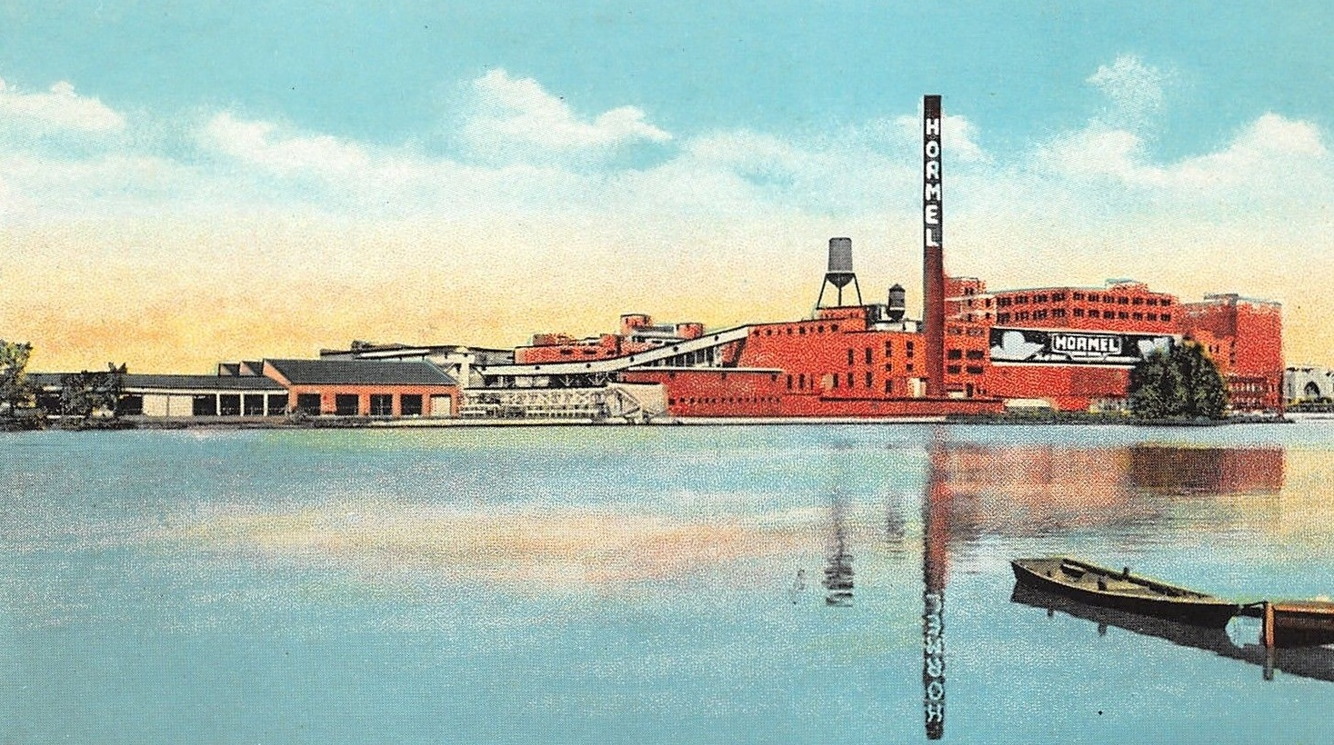 1920 postcard made by Curt Teich & Company of Chicago, showing the Homel Plant, Austin, Minnesota, United States